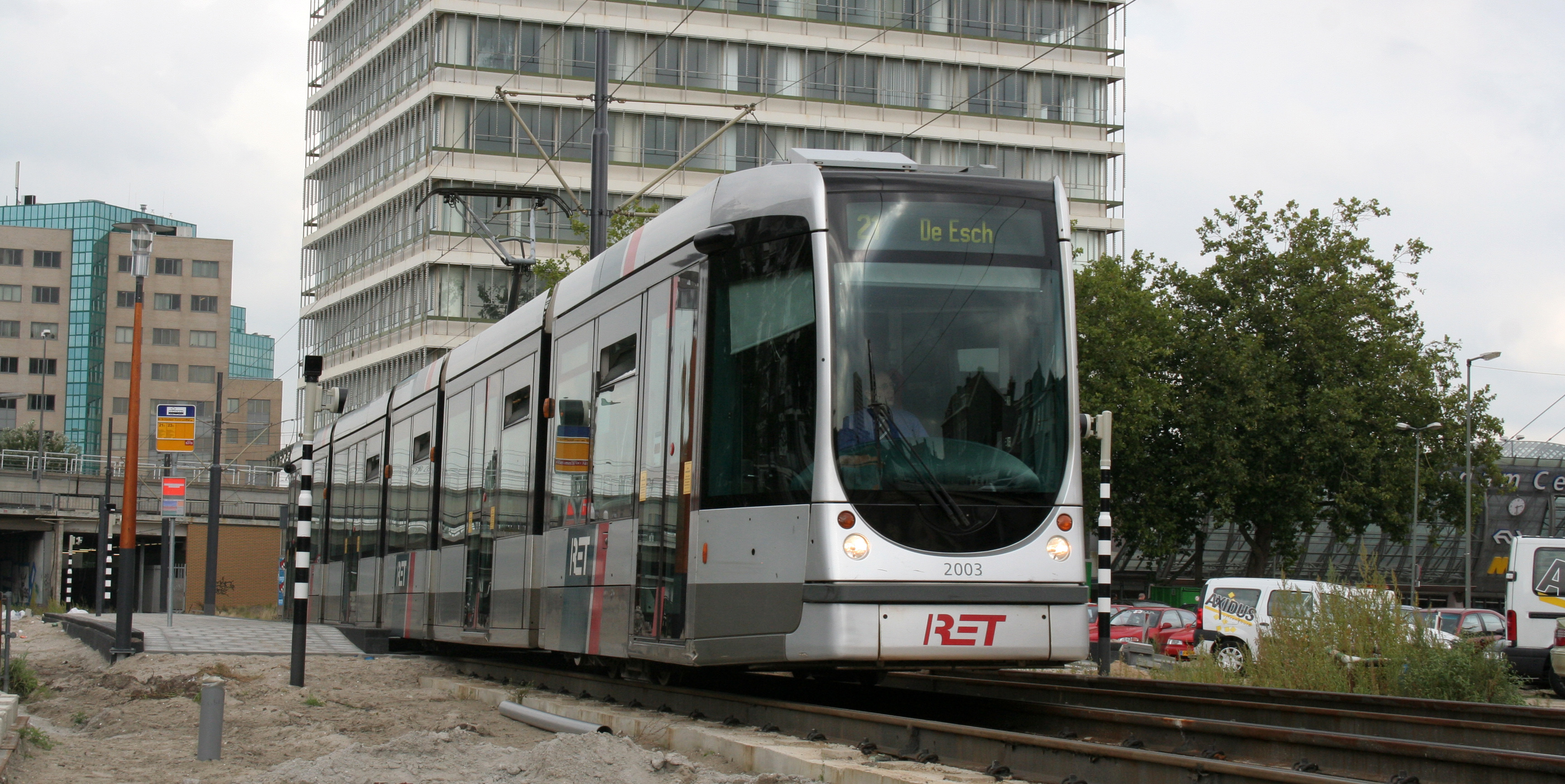 Citadis in Rotterdam